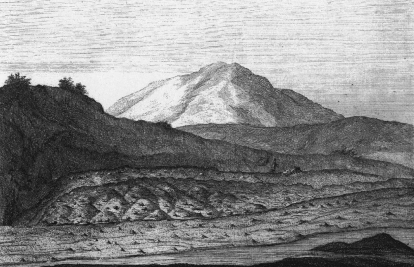 The banks of the Mesima River affected by hundreds of sand volcanoes (from an original etching in Sarconi, 1784)